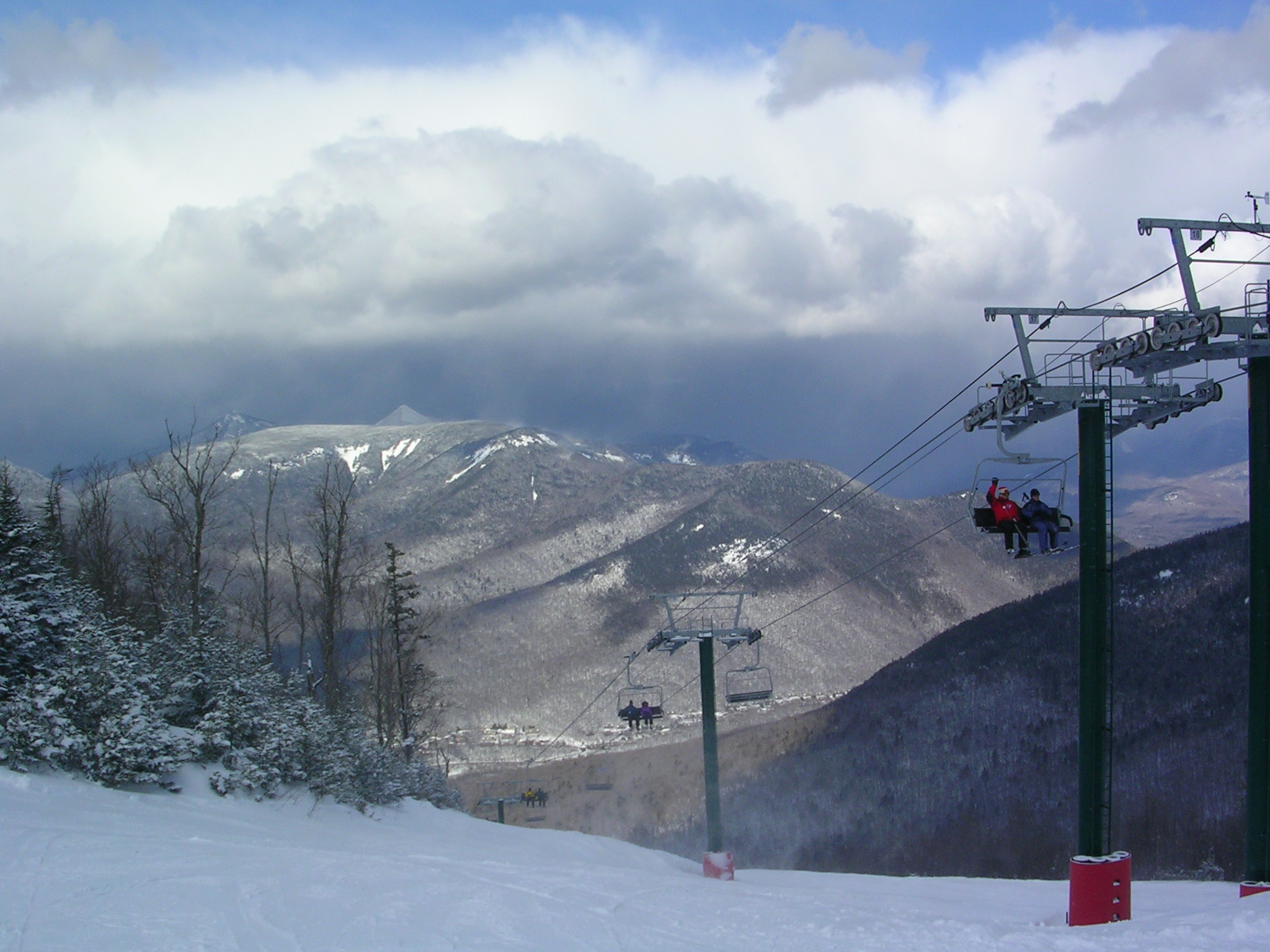 View from Loon Mountain's north peak. The trail beneath the lift is Upper Flume.